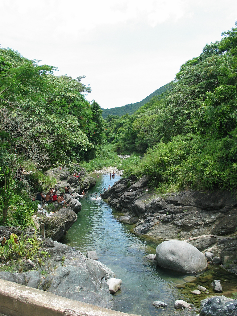 Rio Inabon (Inabon River) along Puerto Rico highway PR-511 in Barrio Real, Ponce, Puerto Rico